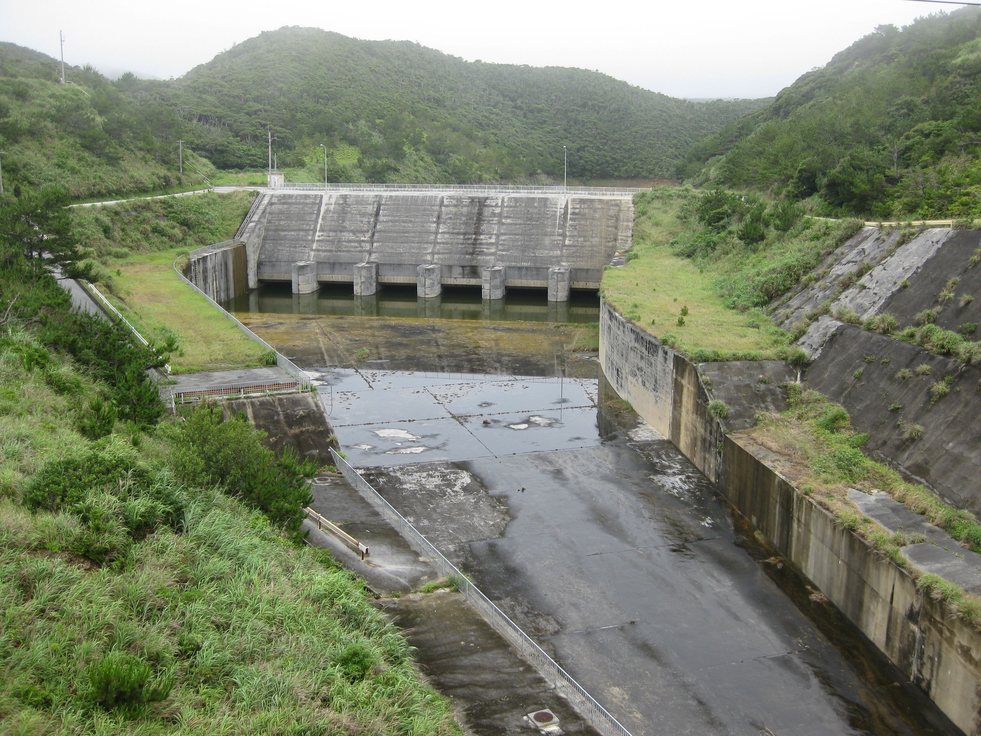 Auxiliary spillway at the eastern end of Fukuji Dam's reservoir in Okinawa, Japan